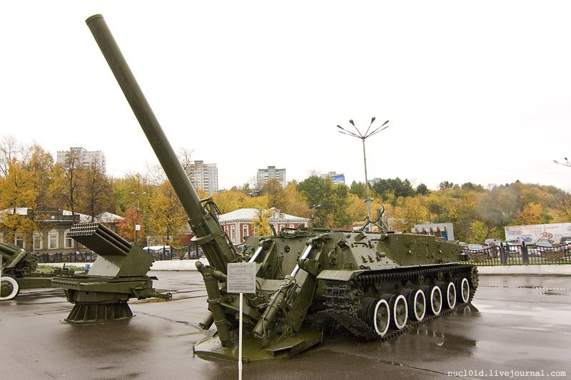 Self-propelled mortar M-1975 (GRAU index - 2S4 "Tyulpan") with 240-mm mortar 2B8 (M-240). Motovilikha Plants museum in Perm Russia.